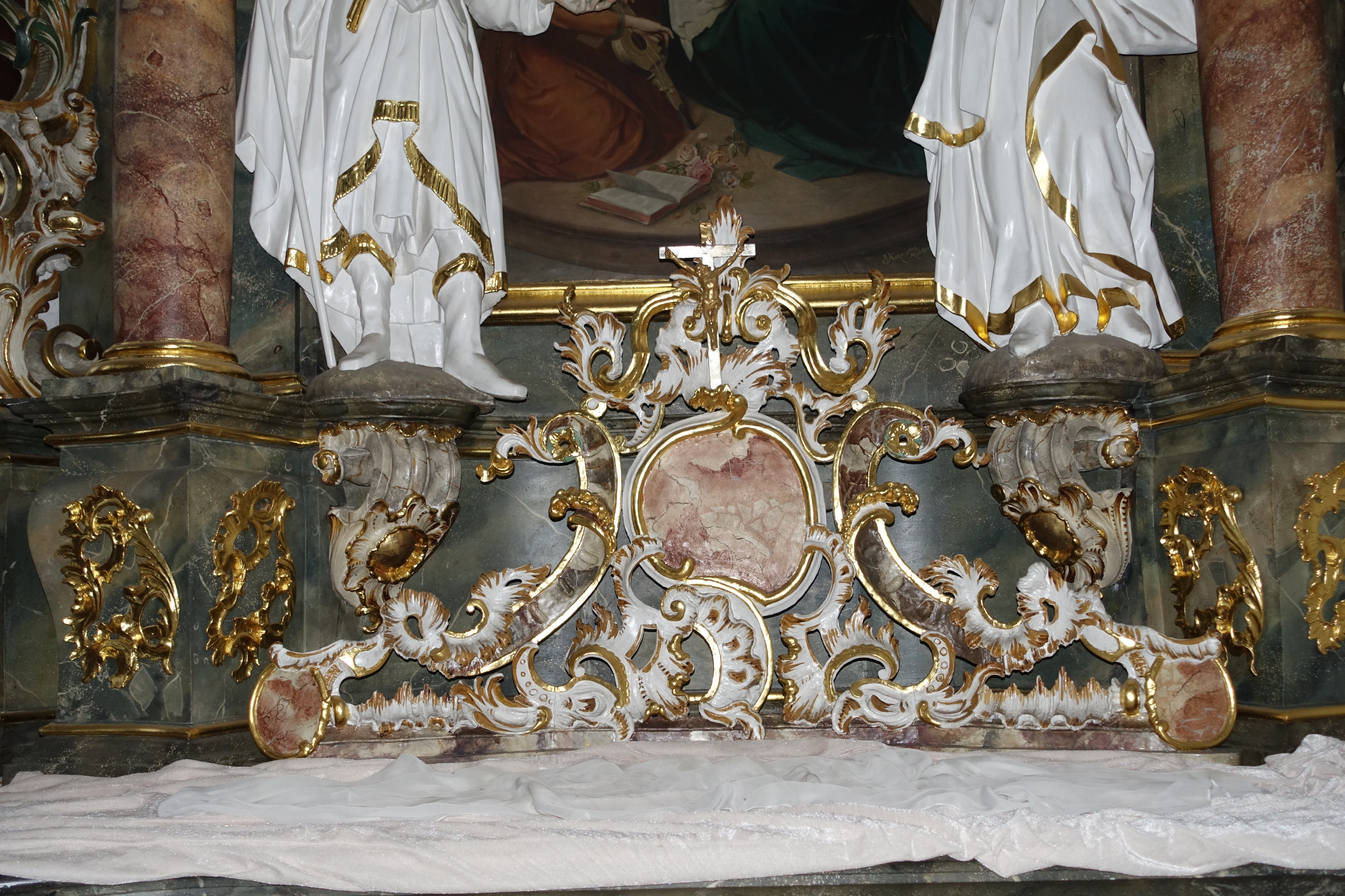 Kreuzerhöhung church in Steinach (Ortenaukreis), right-hand altar, rocaille ornaments